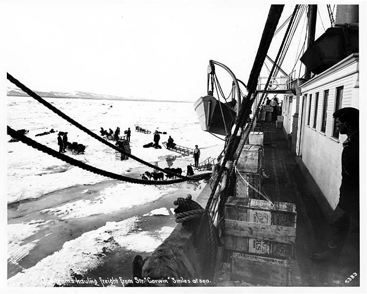 Photographer's title: Dog teams hauling freight from Str. "Corwin" 5 miles at sea.